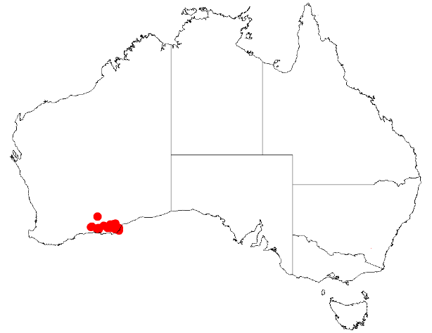 Acacia bracteolata occurrence data map from AVH downloaded from on 8 December 2018